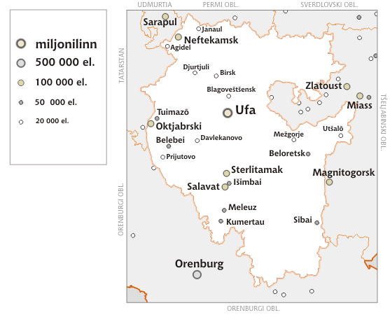 Map of the Republic of Bashkortostan in Estonian